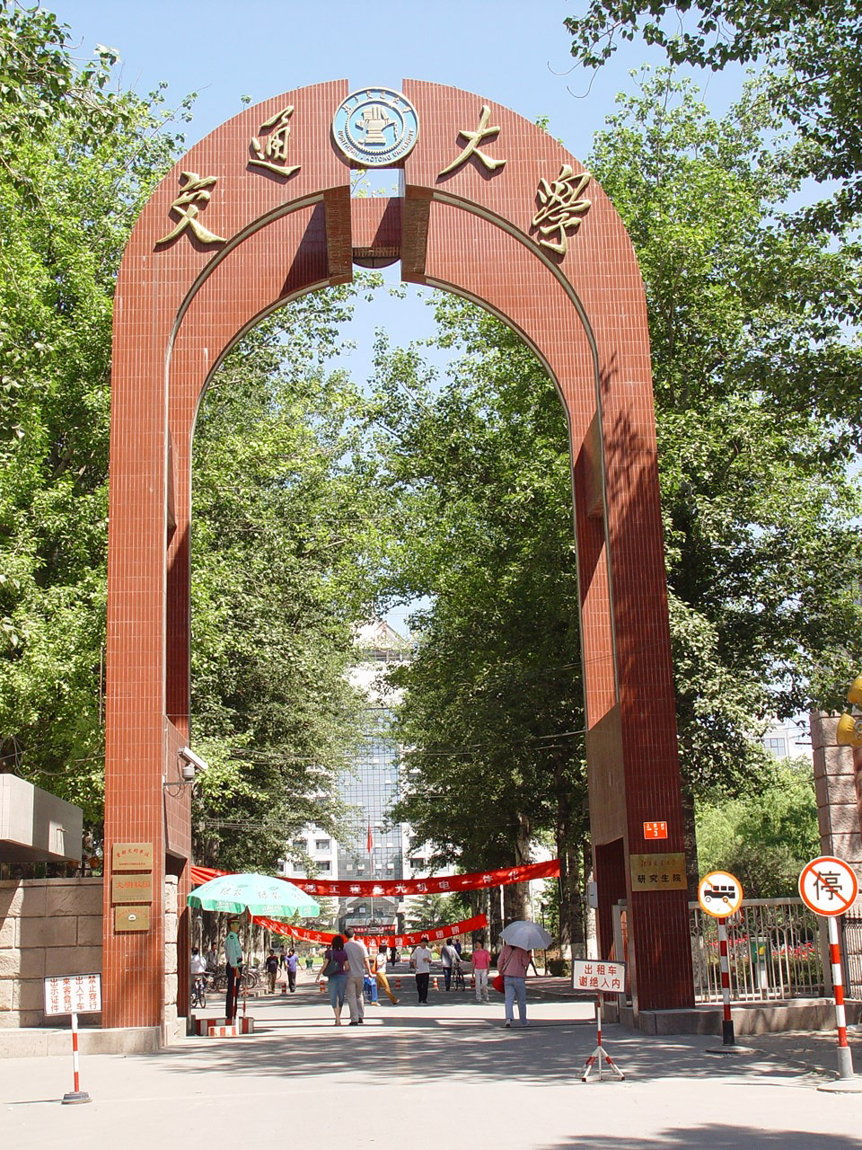 The South Gate of BJTU, a traditional model as in 1920s.